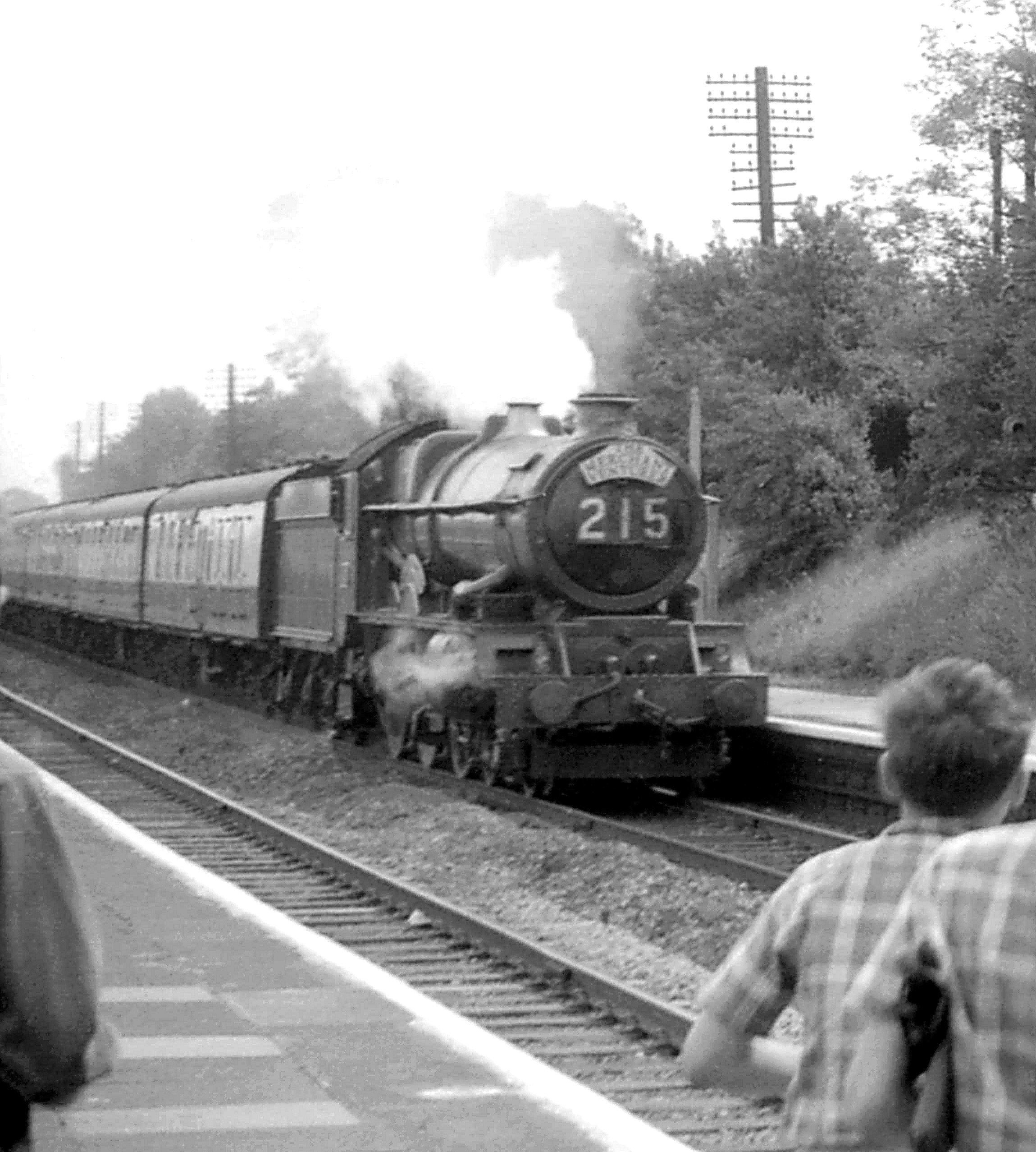 Train spotters on Ealing Broadway railway station in 1959 get excited as a 'King' rushes past with the down fast "Merchant Venturer" express for Bristol. Camera: Kodak Brownie Box.